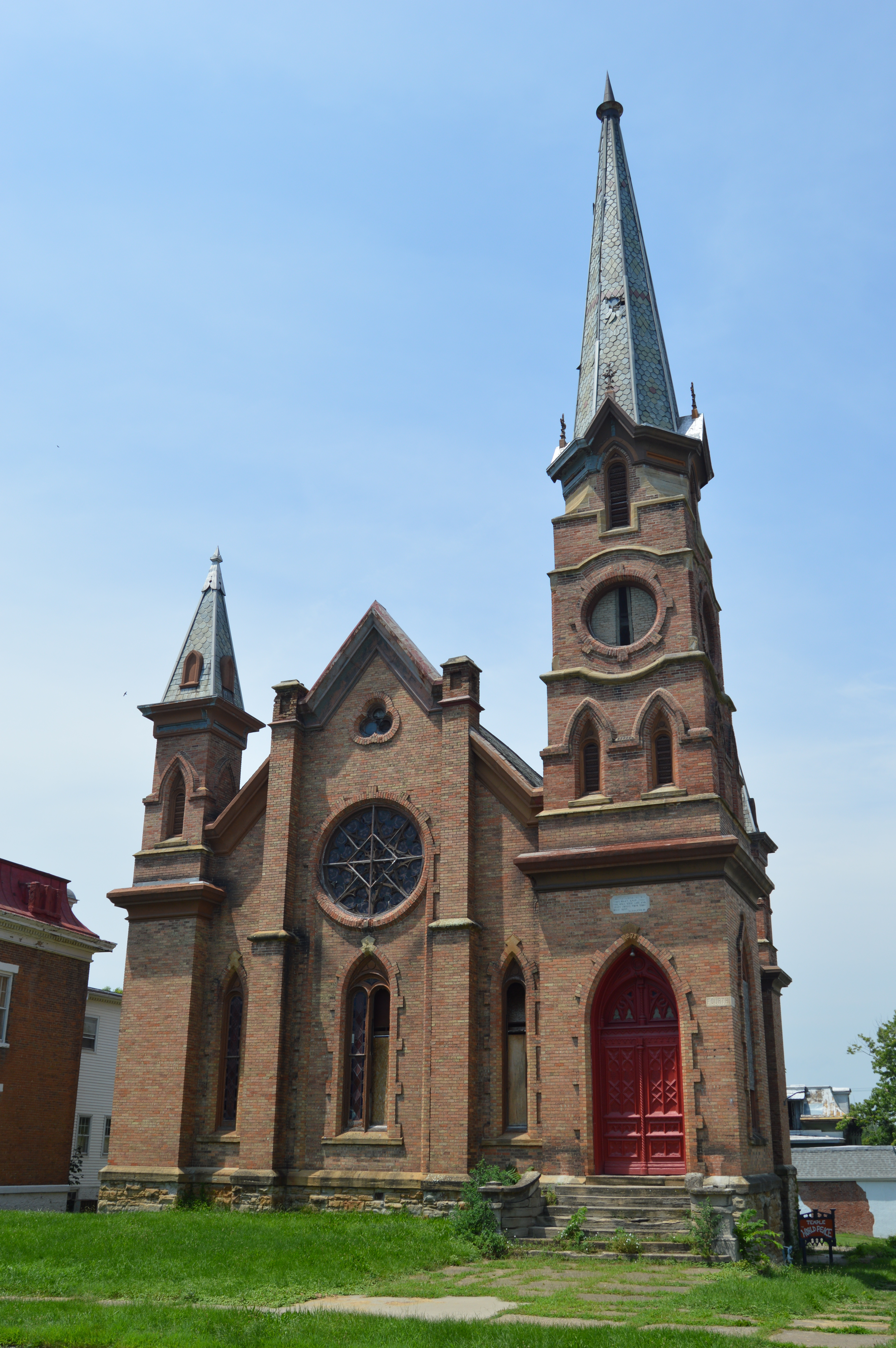 Front of the former First Unitarian Church, located on the northwestern corner of the junction of Fourth and High Streets in Keokuk, Iowa, United States. It was built in 1874.